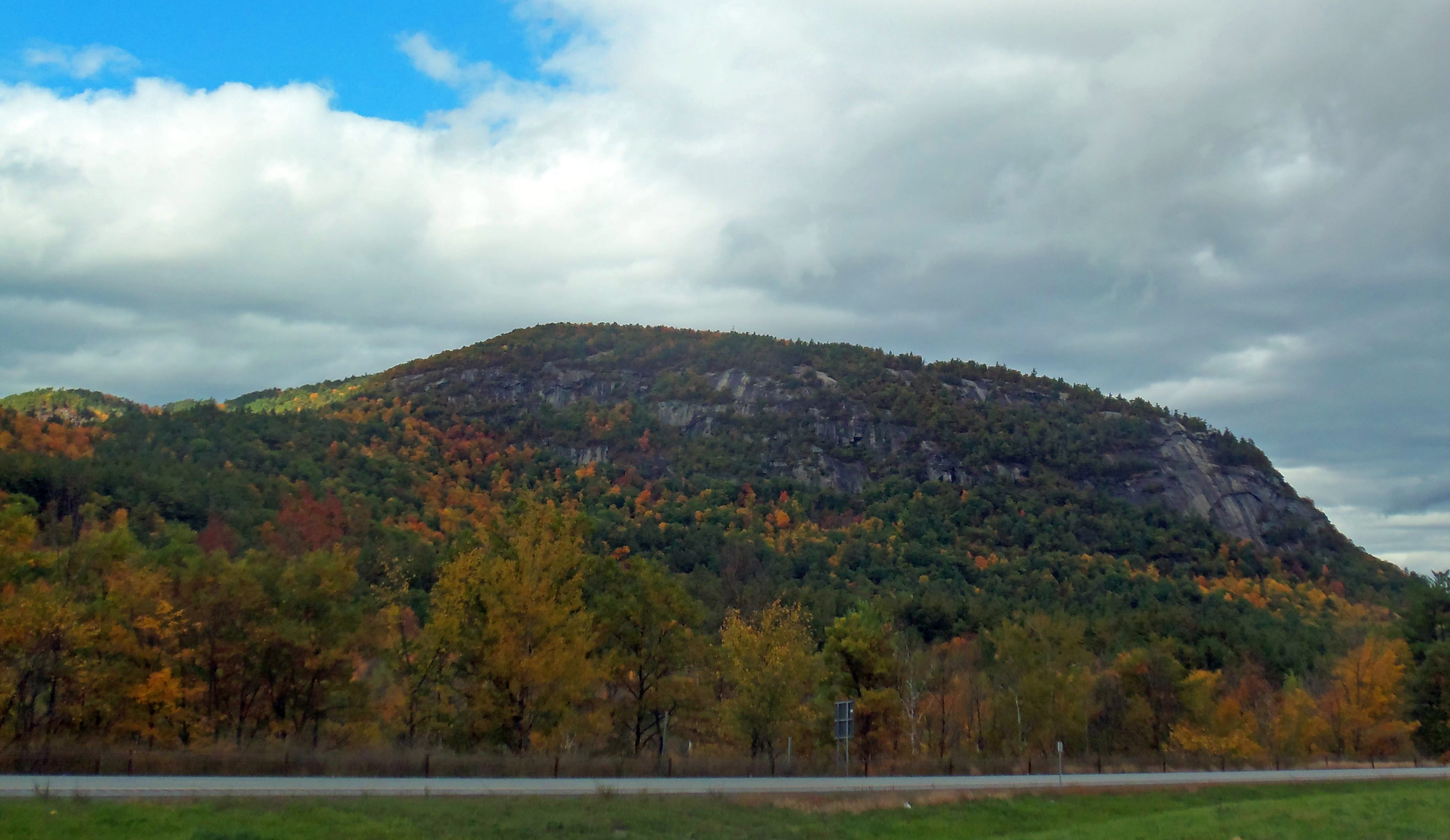 Poke-O-Moonshine Mountain seen from northbound Interstate 87 (the Adirondack Northway) in Chesterfield, NY, USA